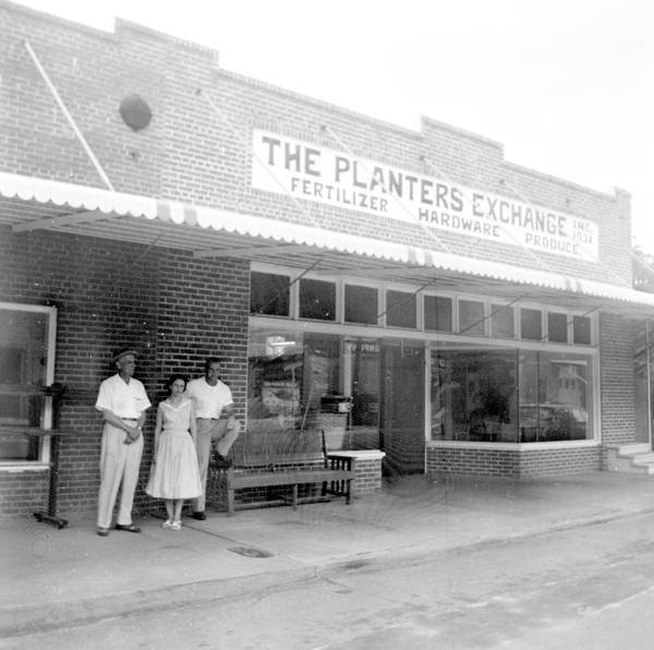 Local call number: PR04122 Title: The Planters Exchange: Havana, Florida Date: 1959 General note: Standing left to right: W.L. Williams, Sr., Nita Harvell, and Donald Williams. The Planter's Exchange, located at 204 2nd Street NW in Havana, Florida, was built ca. 1930. It was added to the National Register of Historic Places in 1999. Physical descrip: 1 photonegative - b&w - 5 x 4 in. Series Title: Print Collections Repository: State Library and Archives of Florida, 500 S. Bronough St., Tallahassee, FL 32399-0250 USA. Contact: 850.245.6700. Persistent URL